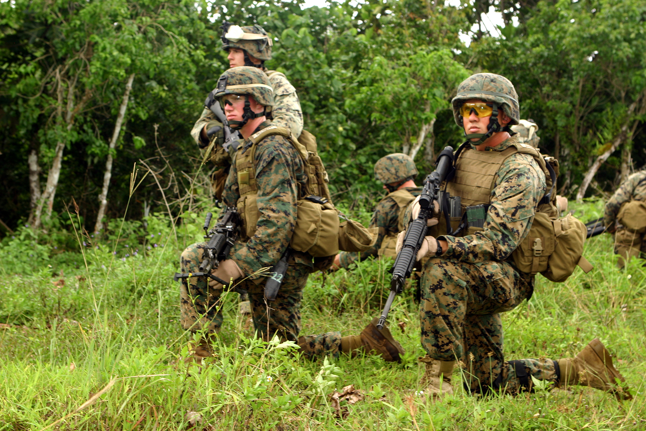 The security element of the 31st Marine Expeditionary Unit’s Maritime Special Purpose Force provides blocking positions near a simulated target site here Aug. 8 as part of Training in an Urban Environment Exercise or “TRUEX.” The Maritime Special Purpose Force is a composite unit made up of Marines and sailors from the MEU’s Battalion Landing Team, 1st Battalion, 5th Marine Regiment, and the command element’s Deep and Amphibious Reconnaissance Platoons. Photo by: Lance Cpl. Kamran Sadaghiani Photo ID: 2006891530 Submitting Unit: 31st MEU Photo Date:08/08/2006